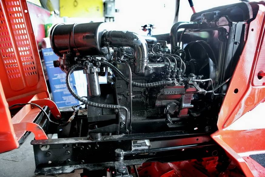 the 3 cylinder D600 diesel engine from a Kubota G5200H garden tractor ... taken by ME